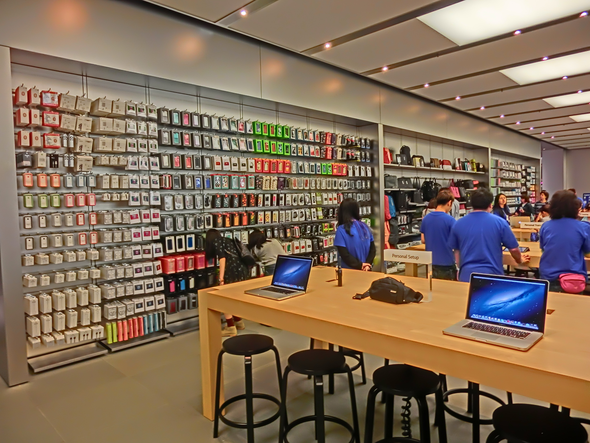 Apple Store, Hysan Place, Causeway Bay, Hong Kong